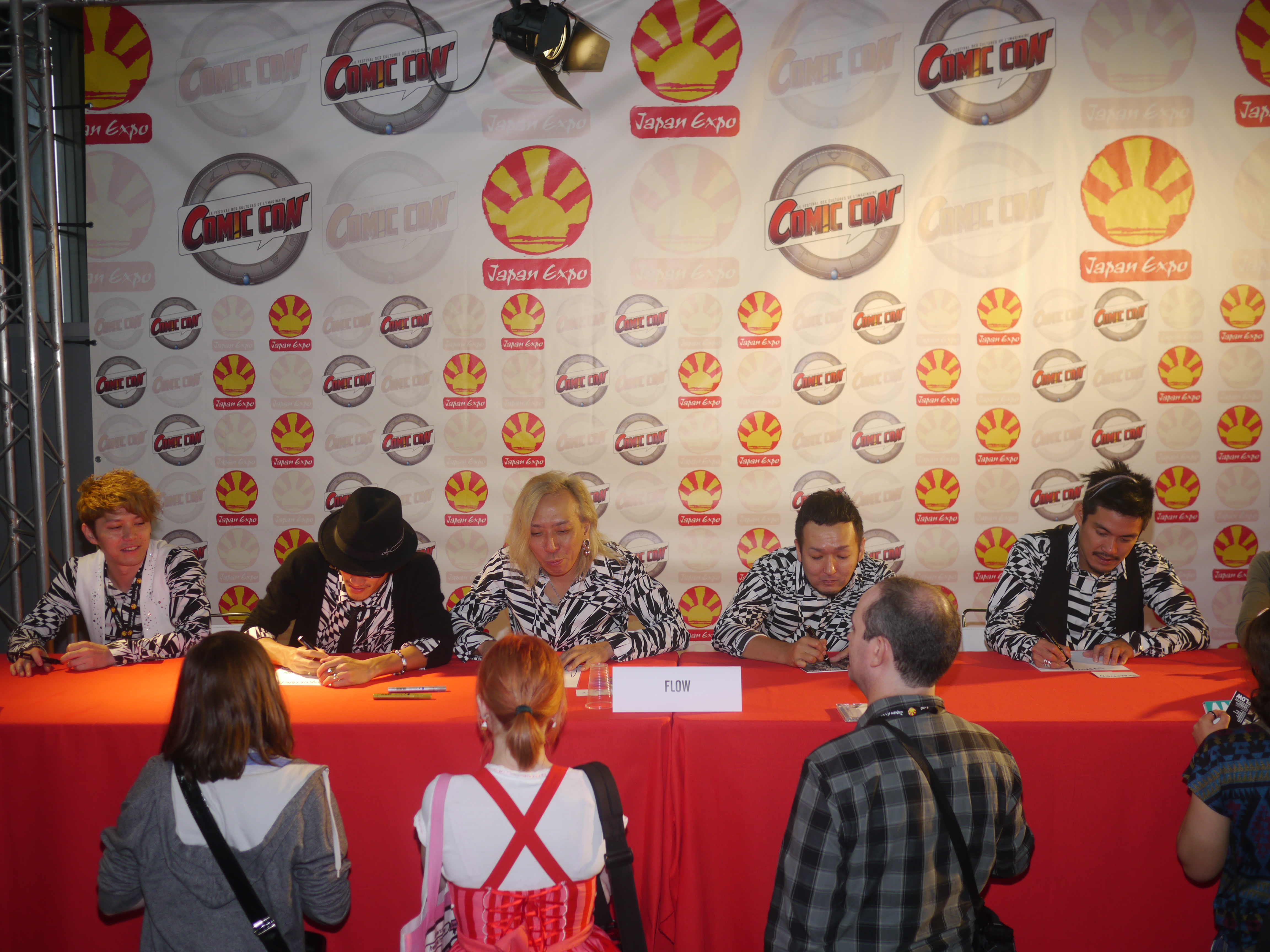 Japan Expo Festival, 13th impact